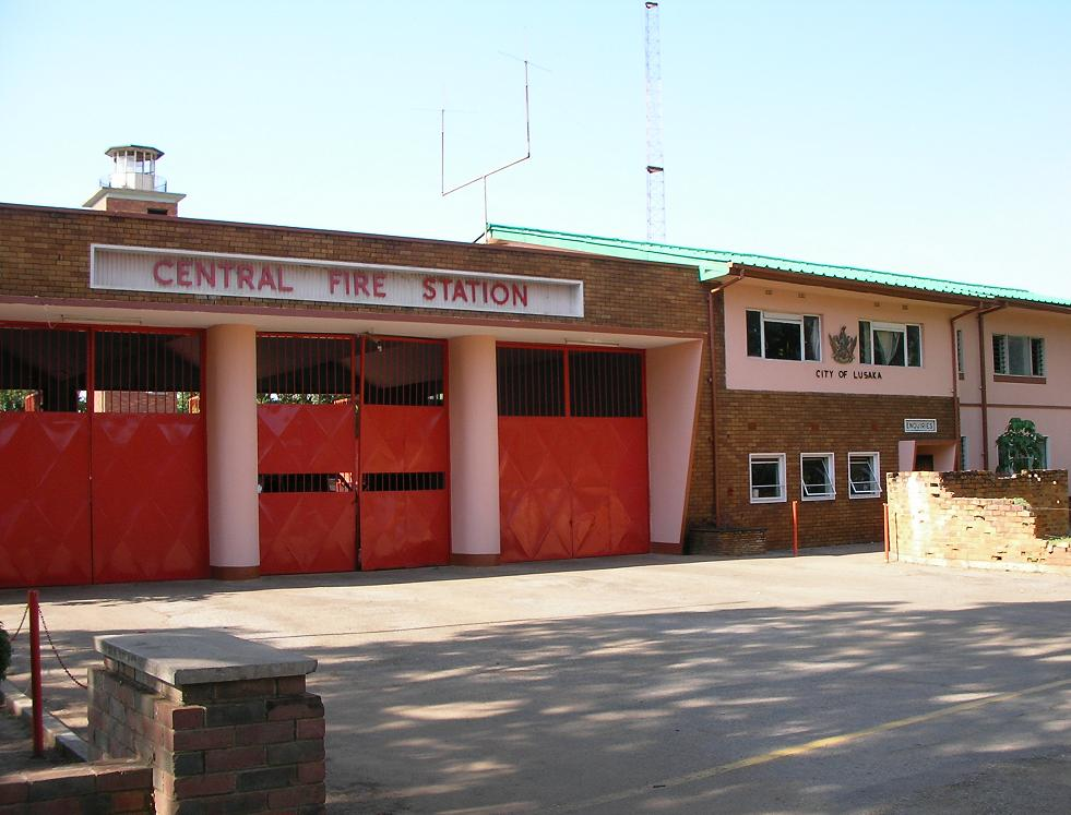 View of the "Central Fire Station" in Lusaka, capital of Zambia. Camera direction is northeast.